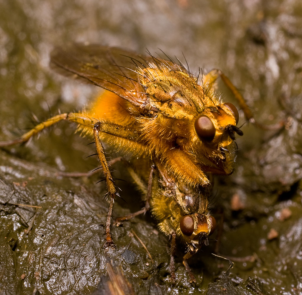 "Scathophaga Stercoraria"